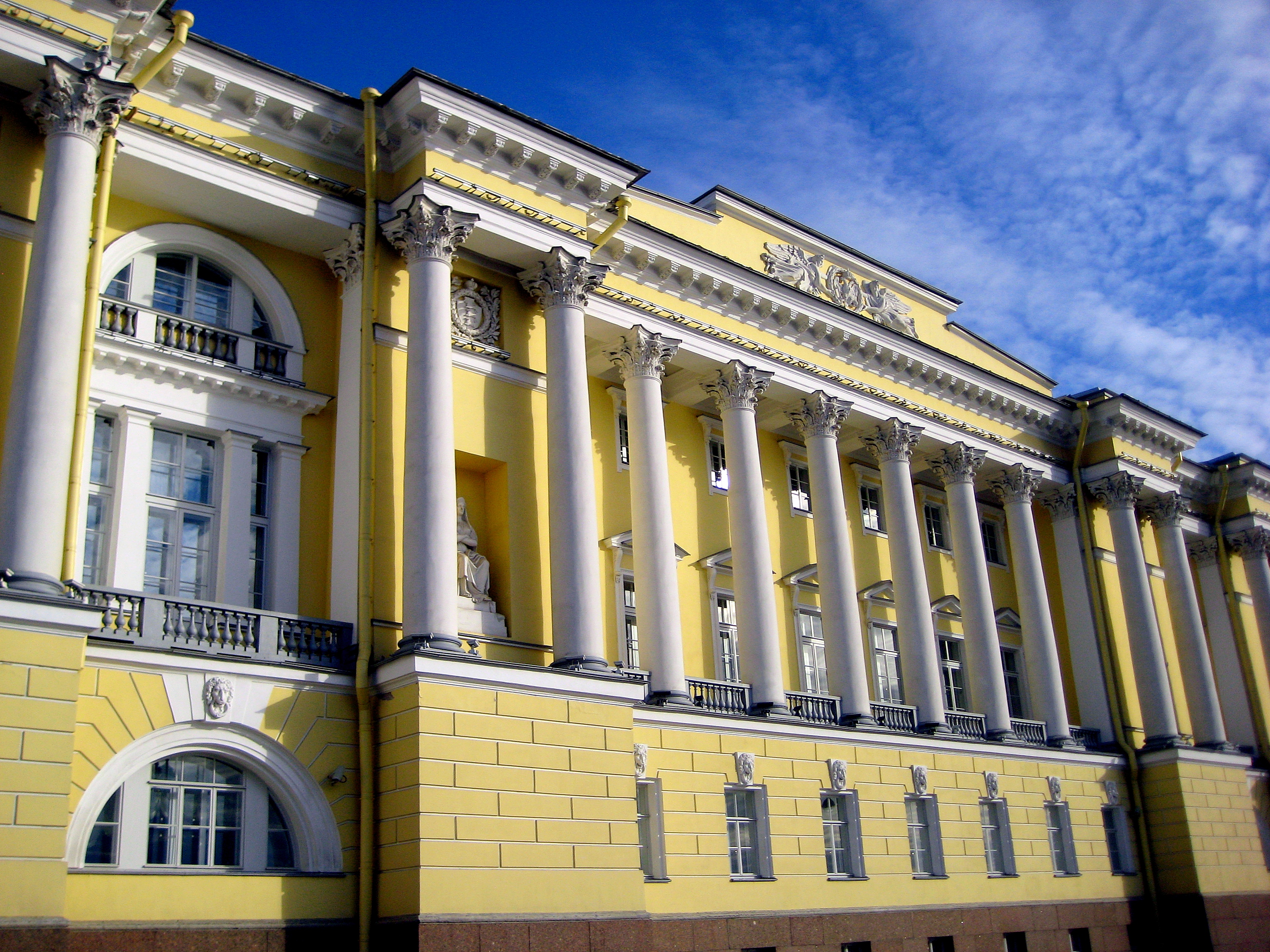 Senate building (architect K.I. Rossi), 1829-1834: English embankment, 2. Admiralteysky district, St. Petersburg.